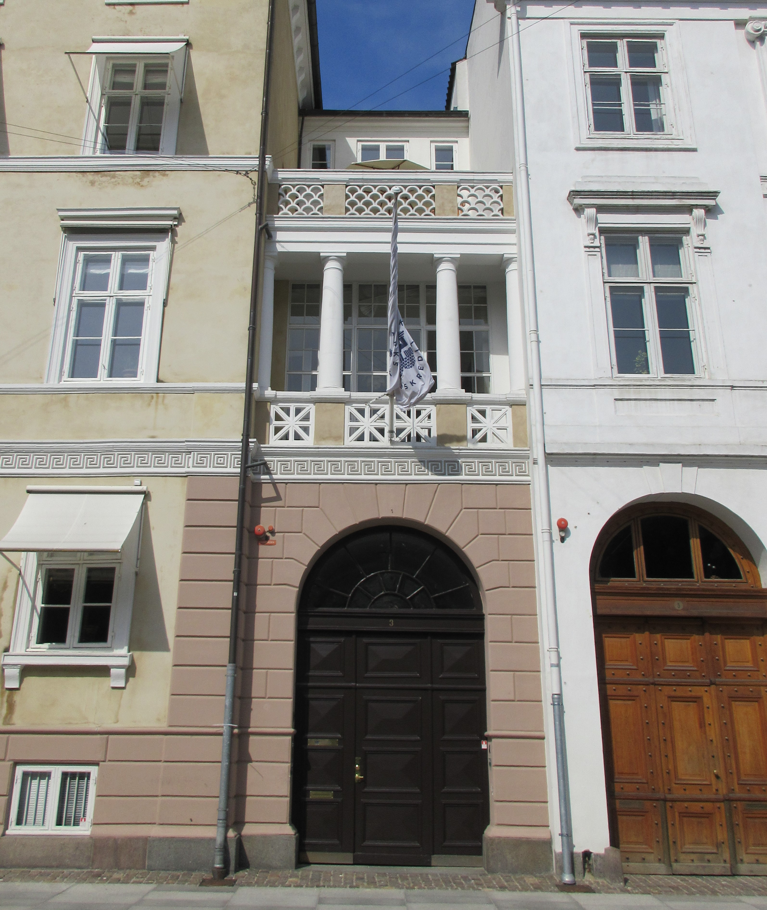 One of the two pavilions that flank Sankt Annæ Plads 1-3 in Copenhagen, Denmark